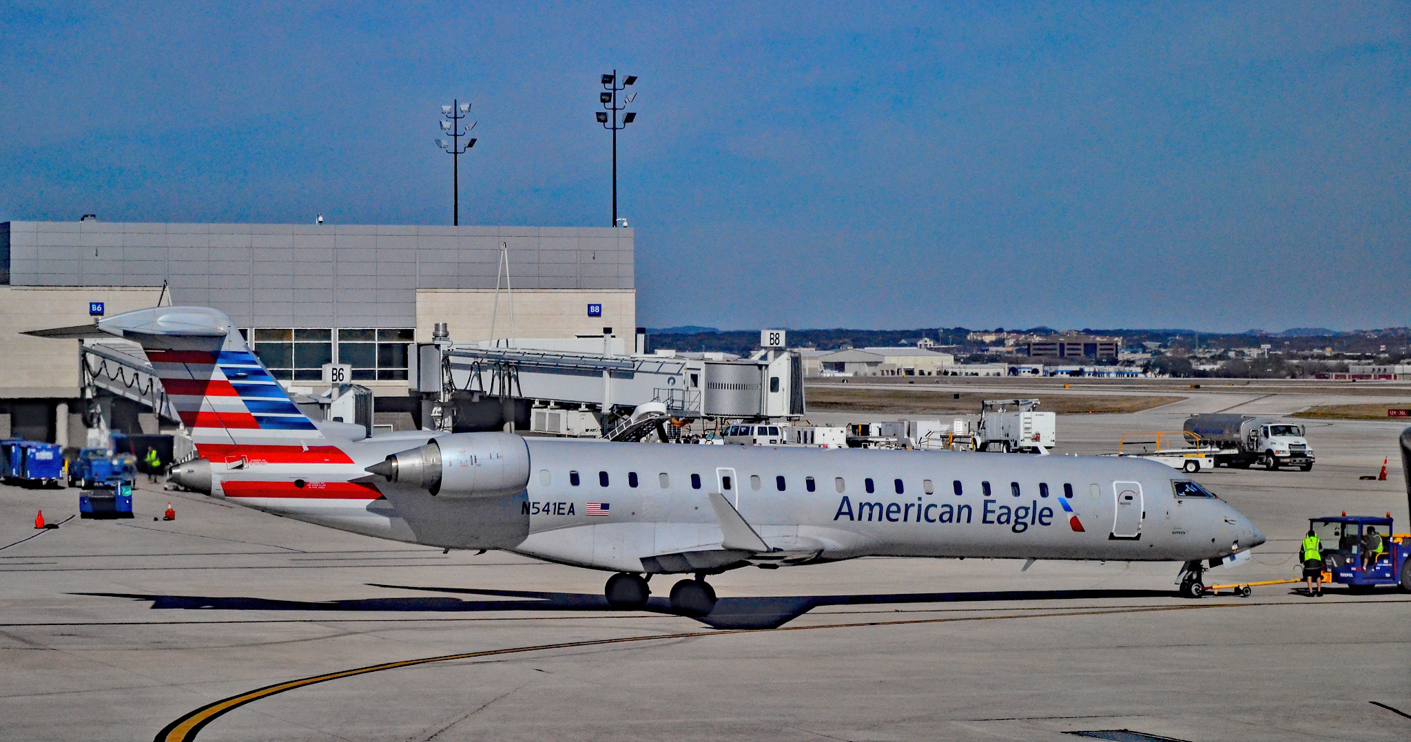 San Antonio International Airport (IATA: SAT, ICAO: KSAT, FAA LID: SAT) Photo: TDelCoro January 24, 2016